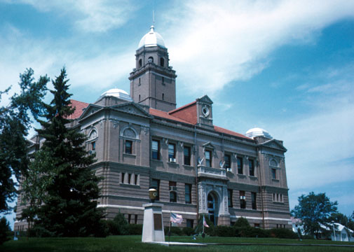 Front of the Saunders County Courthouse, located along Chester between Fourth and Fifth Streets in Wahoo, Nebraska, United States. Built in 1904, it is listed on the National Register of Historic Places.